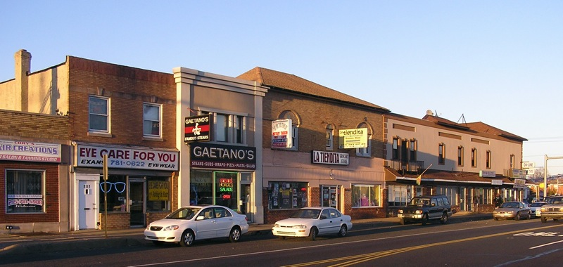 Downtown storefronts along Bristol Pike (US 13) in Croydon, Pennsylvania.